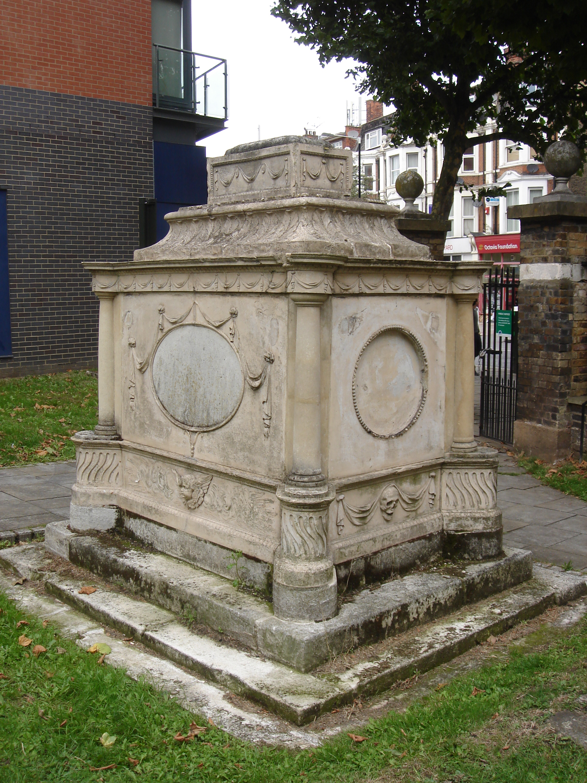 Table tomb, St Mary's Burial Ground, Putney, London